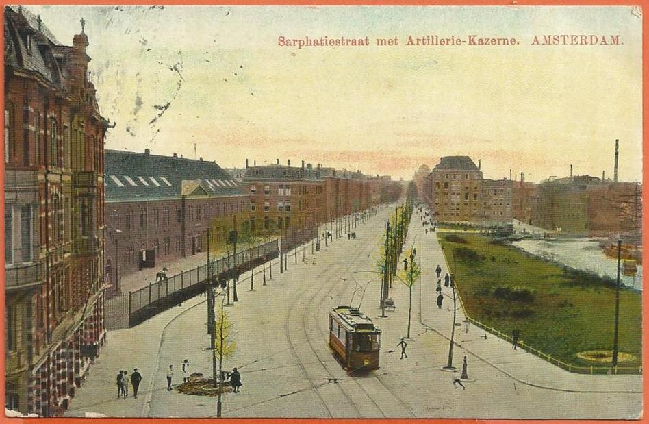 Old postcard of Amsterdam.